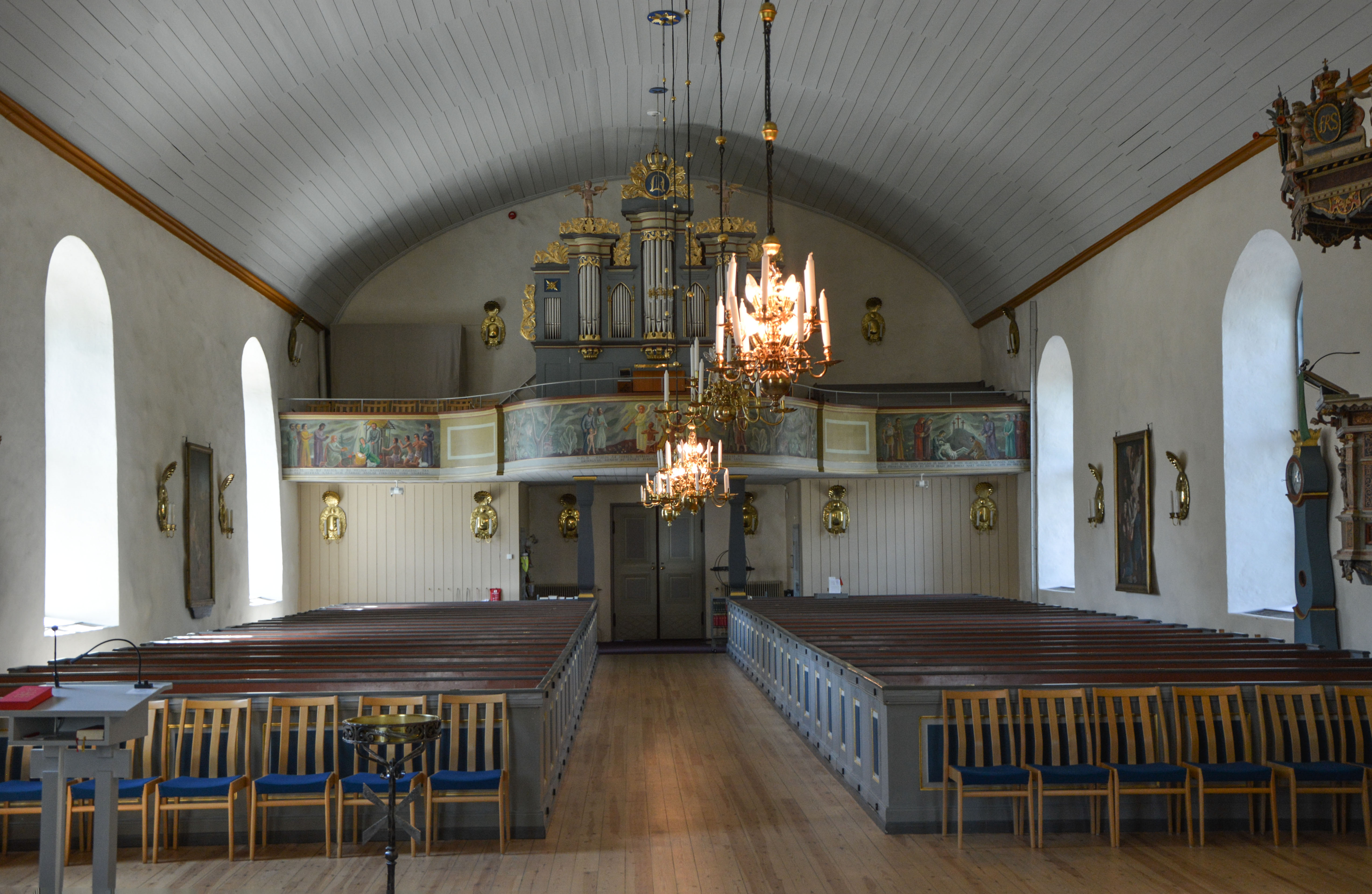 Åseda Church.The interior of the church looking west.